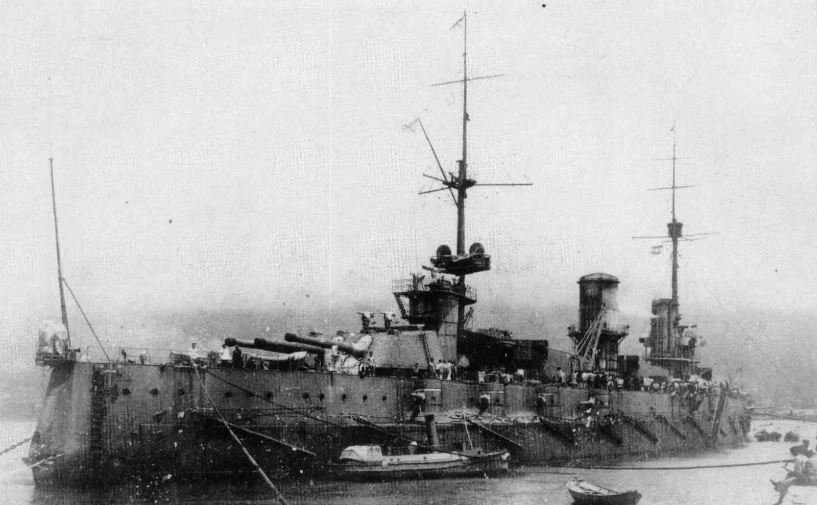 Battleship Volya in Novorossiysk, 1918.